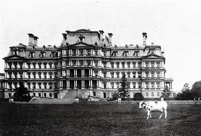 President William Howard Taft's cow, Pauline, poses in front of the Navy Building, which is known today as the Eisenhower Executive Office Building. Pauline was the last cow to live at the White House and provided milk for President Taft (1909-13).